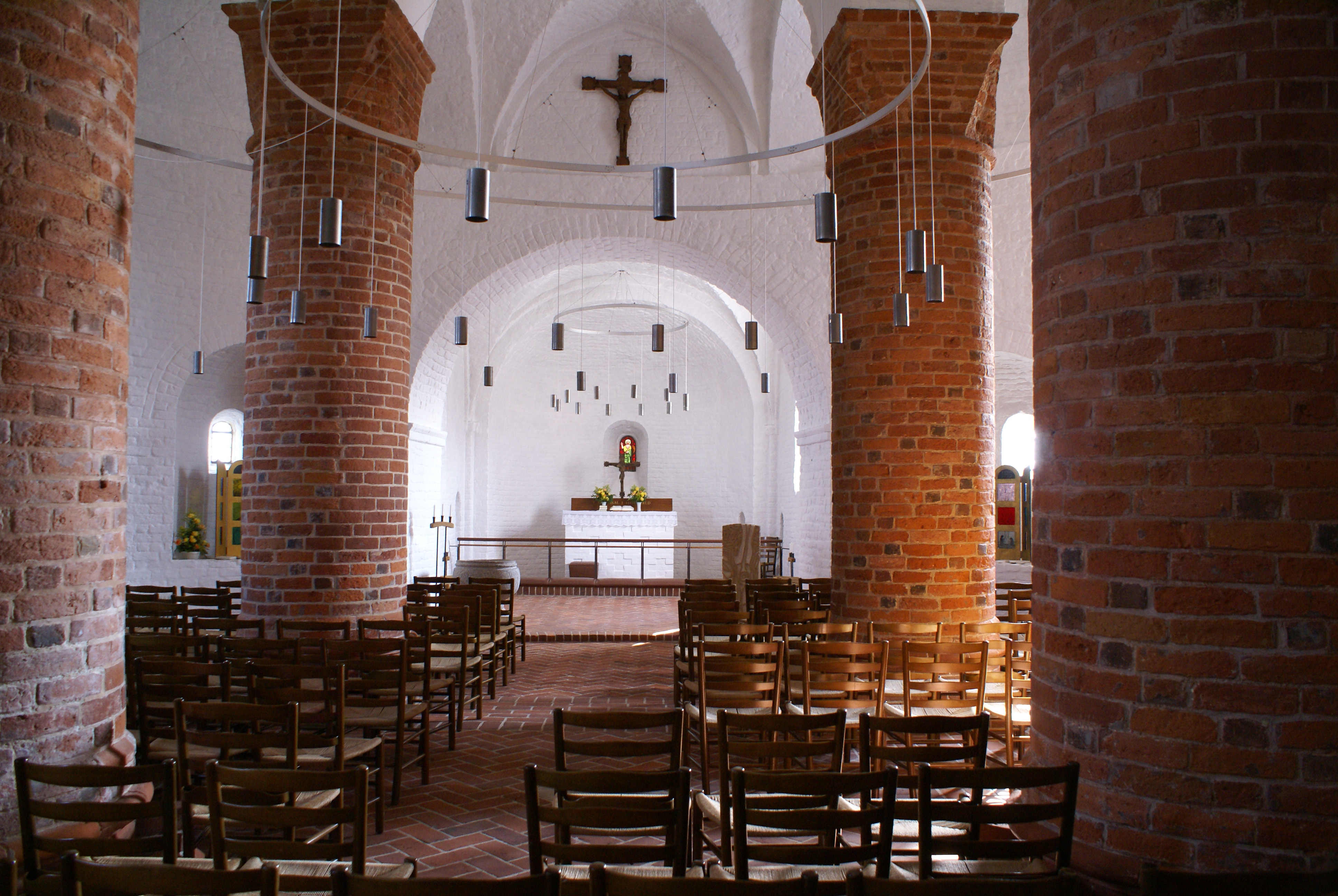 Thorsager Church, Denmark